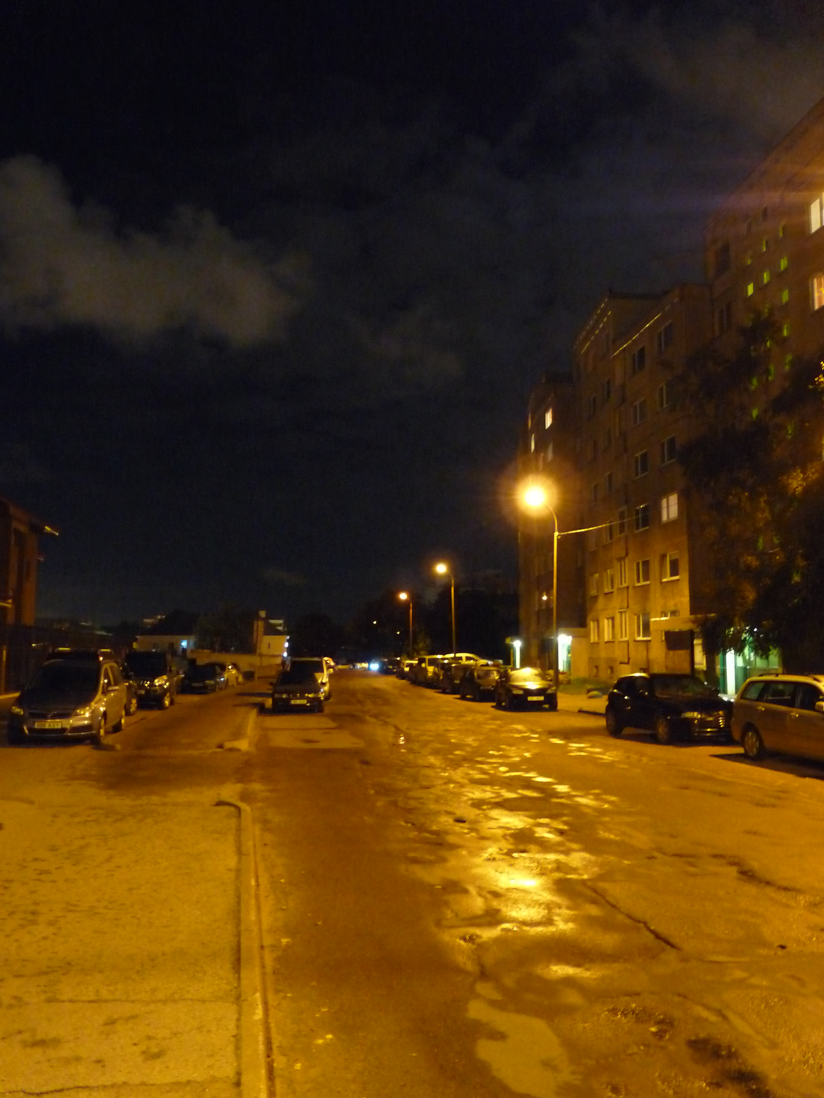 Keldrimäe